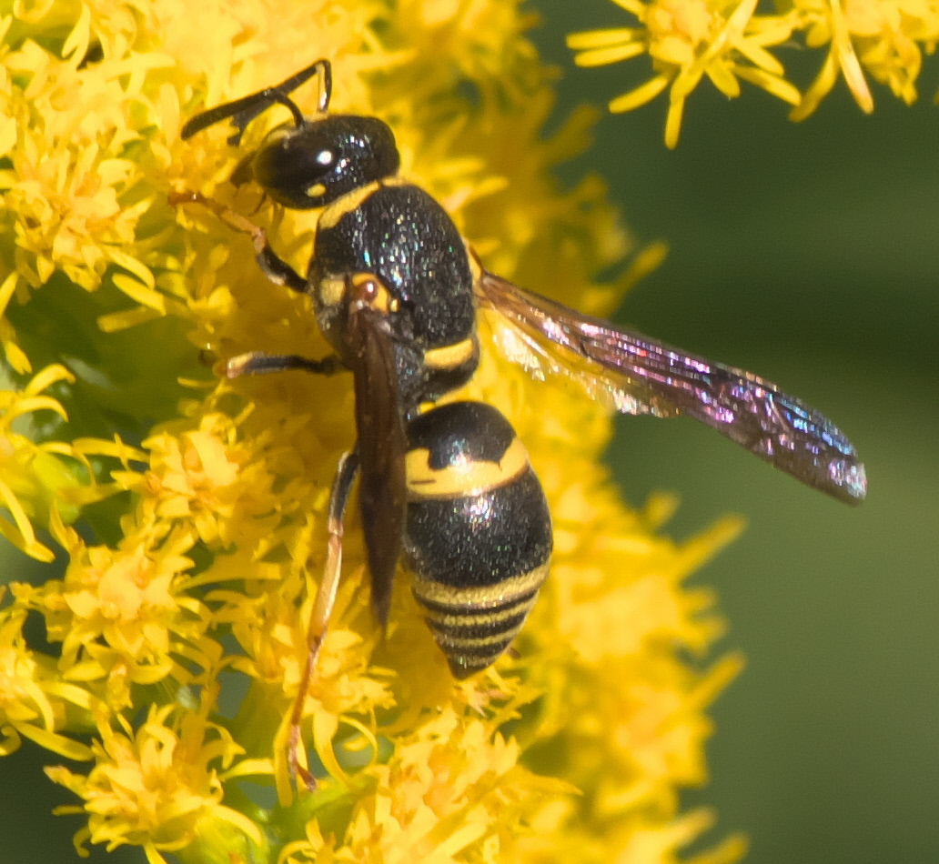 Euodynerus foraminatus, Subfamily: Potter and Mason Wasps, ID Confidence: 88